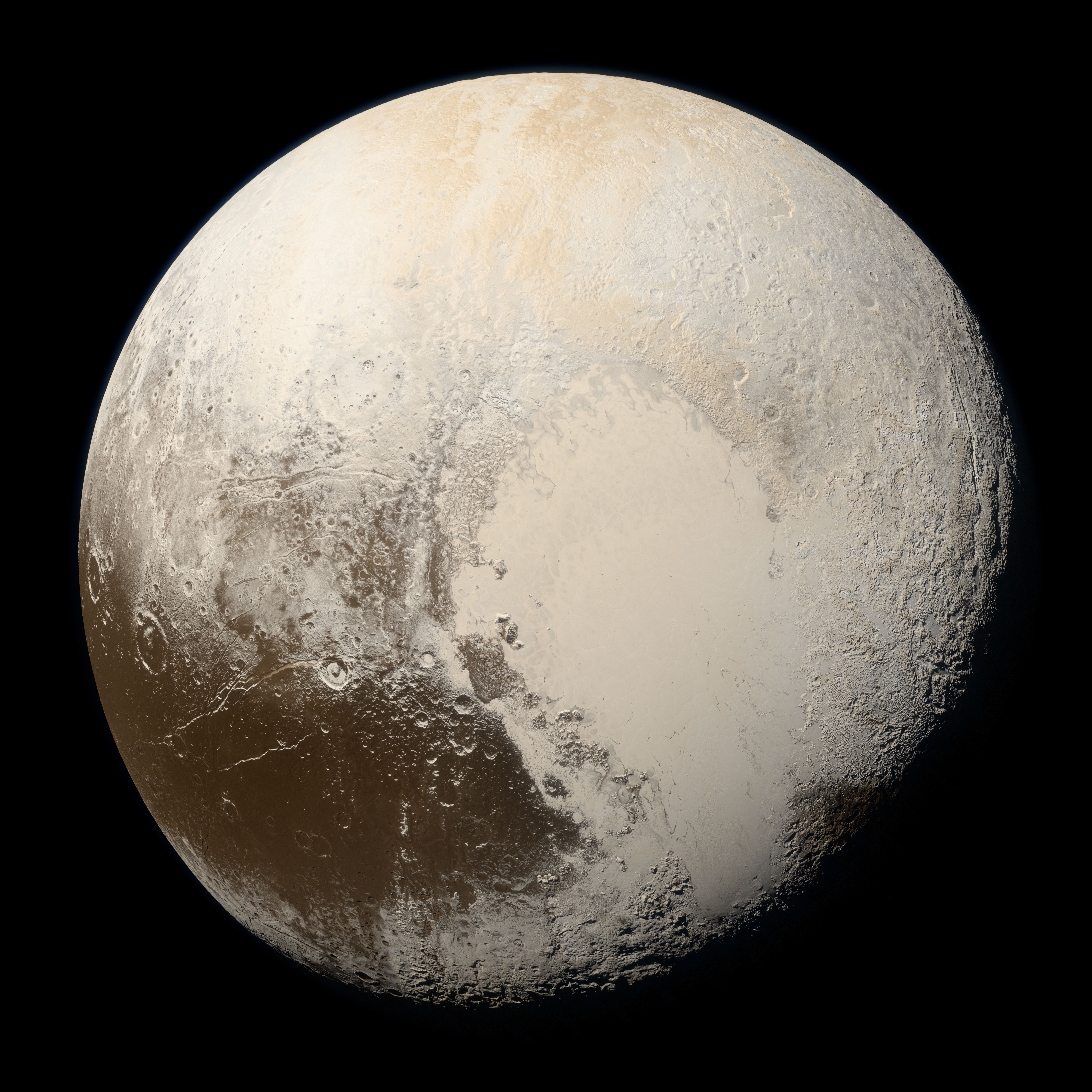 Three years after NASA's New Horizons spacecraft gave mankind our first close-up views of Pluto and its largest moon, Charon, scientists are still revealing the wonders of these incredible worlds in the outer Solar System. Marking the anniversary of New Horizons' historic flight through the Pluto system on July 14, 2015, mission scientists released the highest-resolution color images of Pluto and Charon. These natural-color images result from refined calibration of data gathered by New Horizons' color Multispectral Visible Imaging Camera (MVIC). The processing creates images that would approximate the colors that the human eye would perceive, bringing them closer to “true color” than the images released near the encounter. This image was taken as New Horizons zipped toward Pluto and its moons on July 14, 2015, from a range of 22,025 miles (35,445) kilometers. This single color MVIC scan includes no data from other New Horizons imagers or instruments added. The striking features on Pluto are clearly visible, including the bright expanse of Pluto's icy, nitrogen-and-methane rich "heart," Sputnik Planitia.